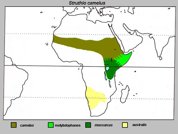 Ostrich distribution map Struthio camelus